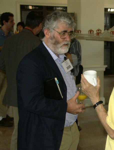 Peter Lynch at Symposium on the 50th Anniversary of Operational Numerical Weather Prediction in 2004